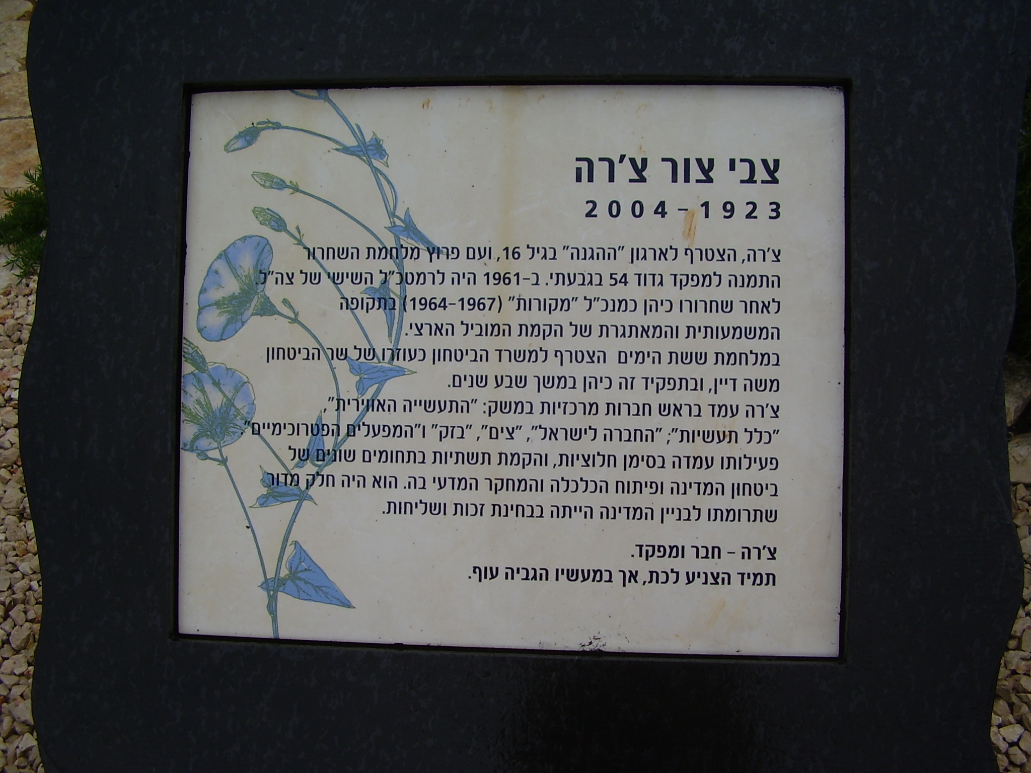 chara lookoot in galilee